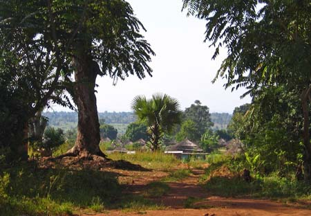 Large trees and natural landscape, outside of Yei, South Sudan.